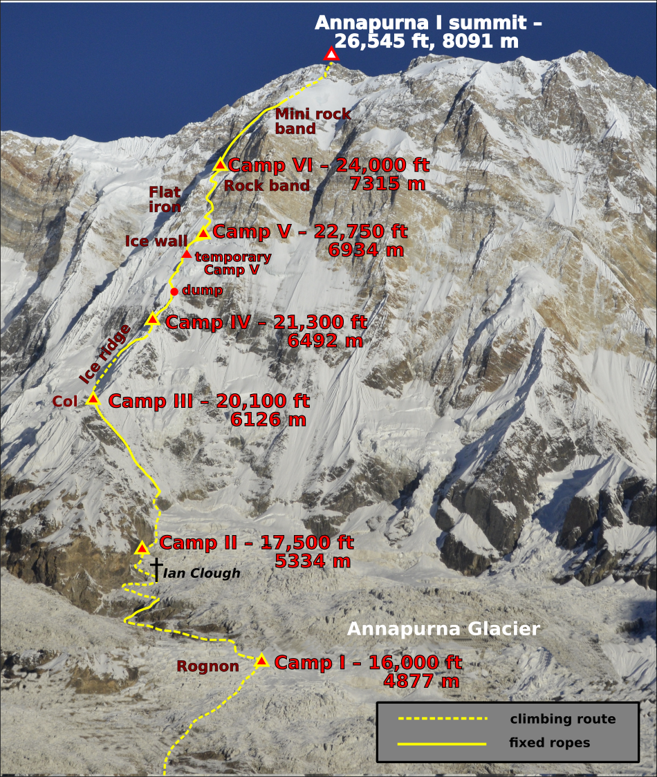 1970 Annapurna south face expedition climbing route. British expedition led by Chris Bonington In two references Bonington shows a plan of the camp locations superimposed on a photograph of the mountain. The photo seems to have been taken from very much the same location (presumably Base Camp) as File:Annapurna Base Camp Range 1.jpg and with similar snow and lighting conditions. The sources for the camp locations are Bonington, Chris (1971). Annapurna South Face. Book Club Associates, fold-out figure after p. 334; and, more schematic, Bonington, Christian (1971). "Annapurna South face" Alpine Journal: p. 18.